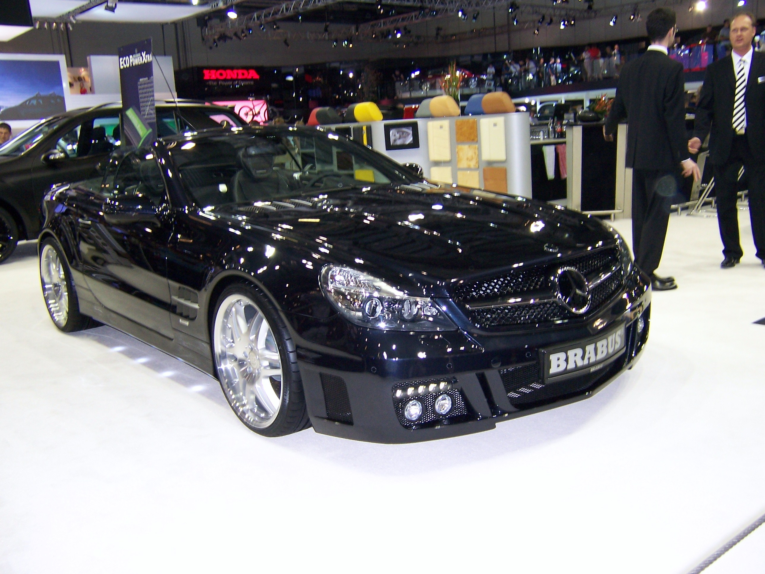 Photo of Mercedes-Benz SL Brabus in 2008.